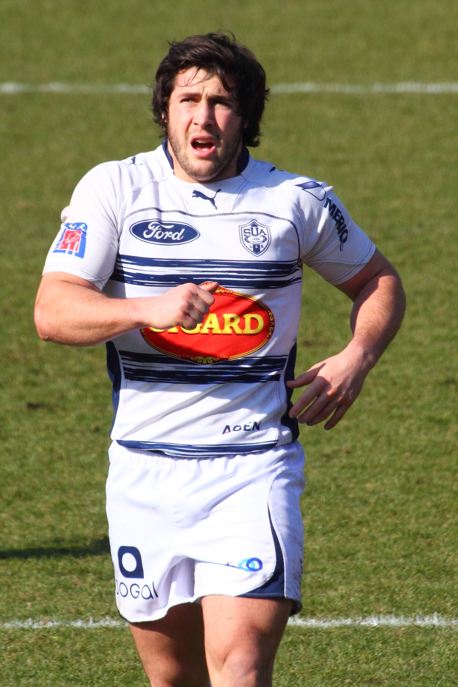 Top 14 — 18 February 2012, Stade Ernest-Wallon. Match between: Stade toulousain — Sporting union Agen Lot-et-Garonne